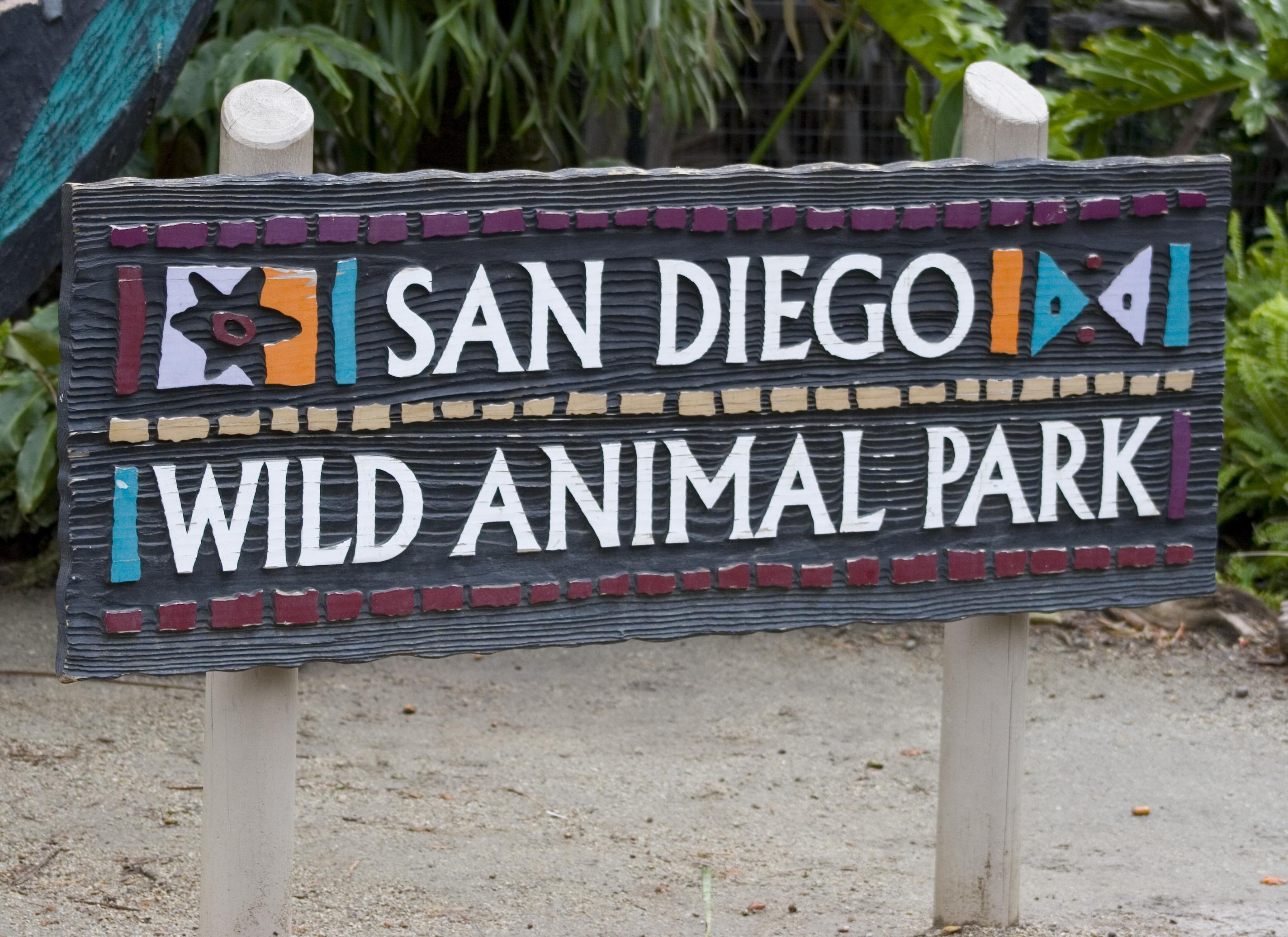 San Diego Zoo Safari Park, formerly named the San Diego Wild Animal Park.